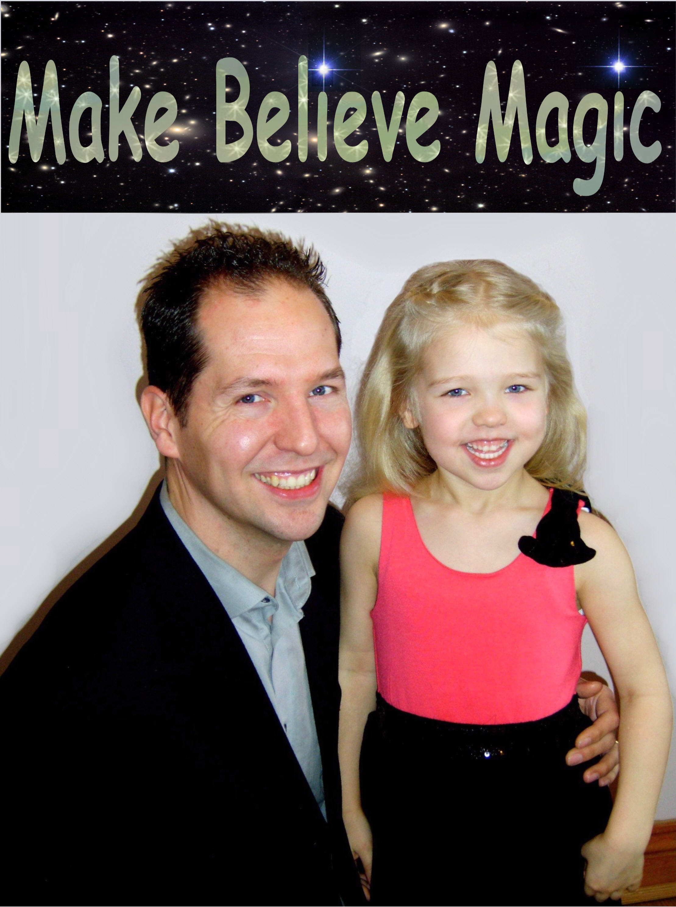 Steve & Deanna Gore are Make Believe Magic